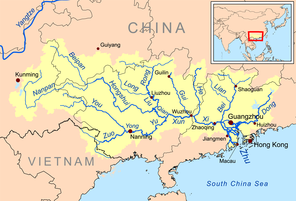 Map of the tributaries of the Pearl River, and the Pearl River Basin (watershed/drainage basin) in yellow. The Lubao Yong and Xinan Yong converge with the Liuxi River to form the main branch of the Pearl River just north of Guangzhou. The long and wide Pearl River Delta includes the dense network of cities that span nine prefectures of Guangdong Province, into the South China Sea. Using Digital Chart of the World and GTOPO data.